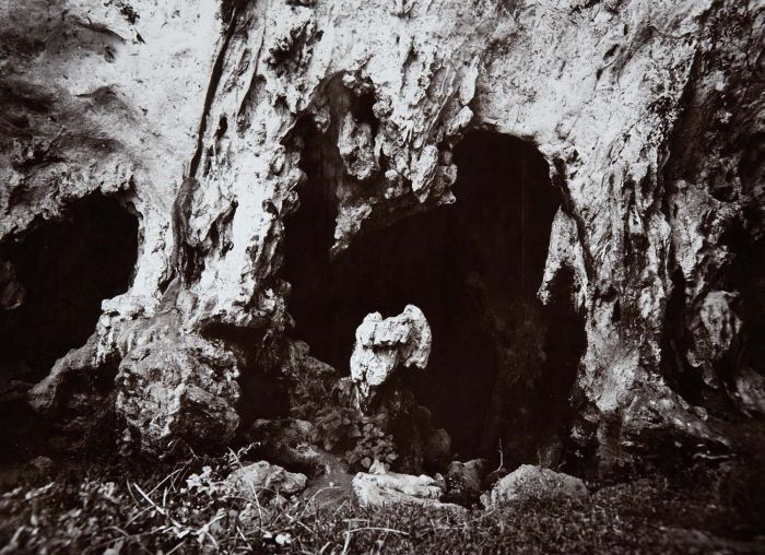 Cave at the Gunung Pawon